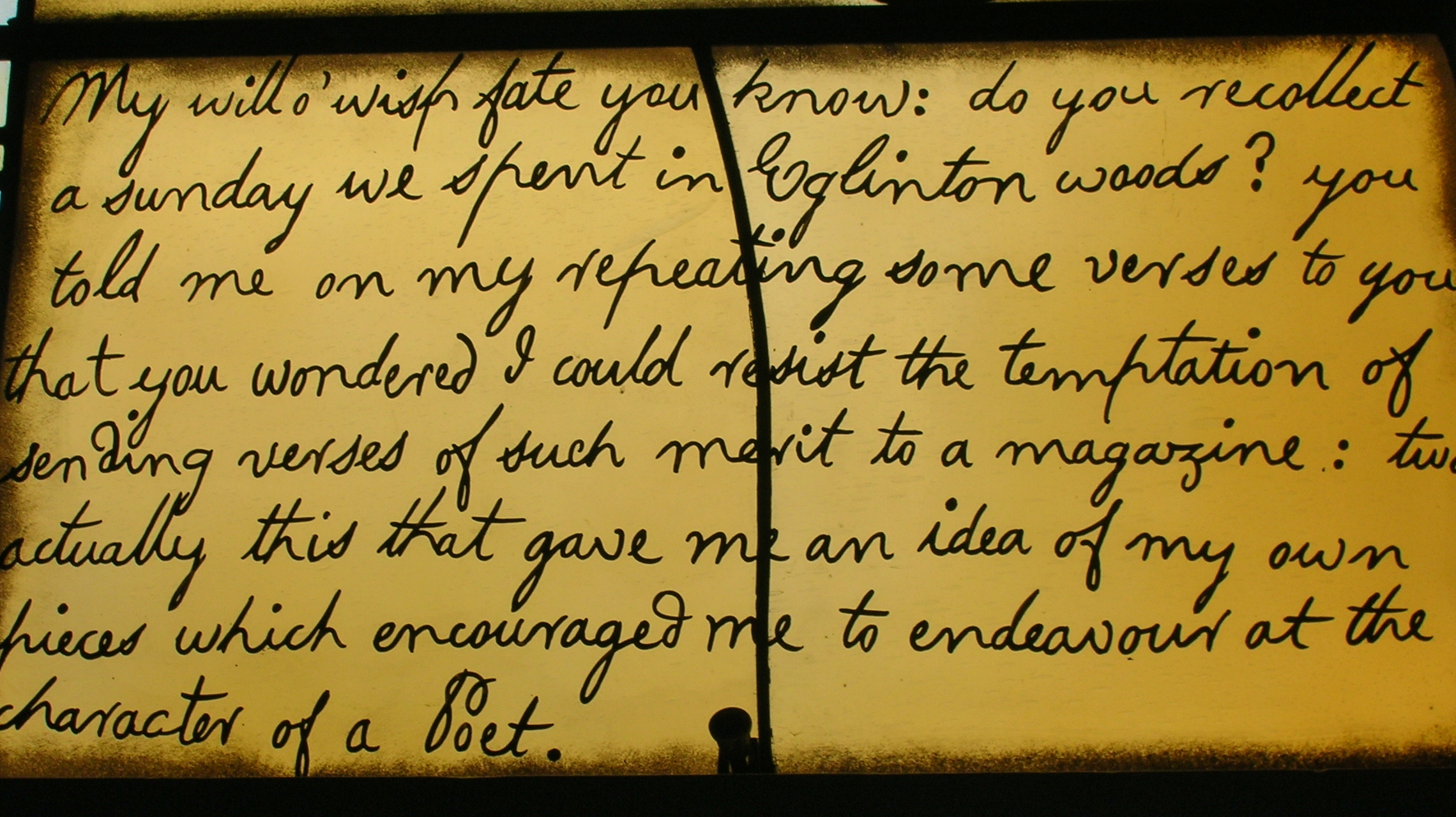 Lines from a Robert Burns letter, Eglinton Woods, Irvine Burns Club, North Ayrshire, Scotland.